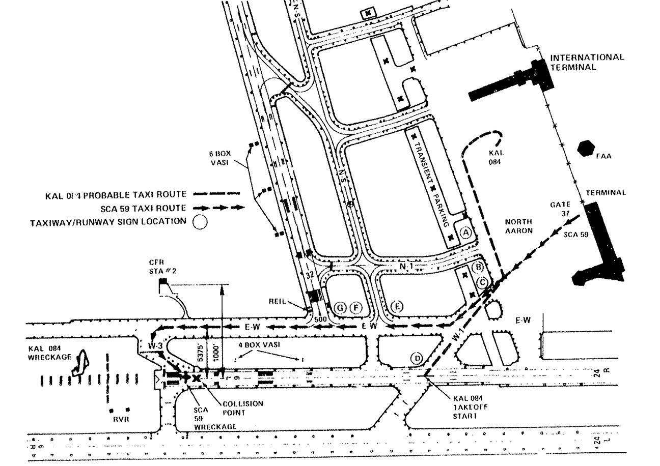 Korean Air 084 and Southcentral Air 59 taxi route